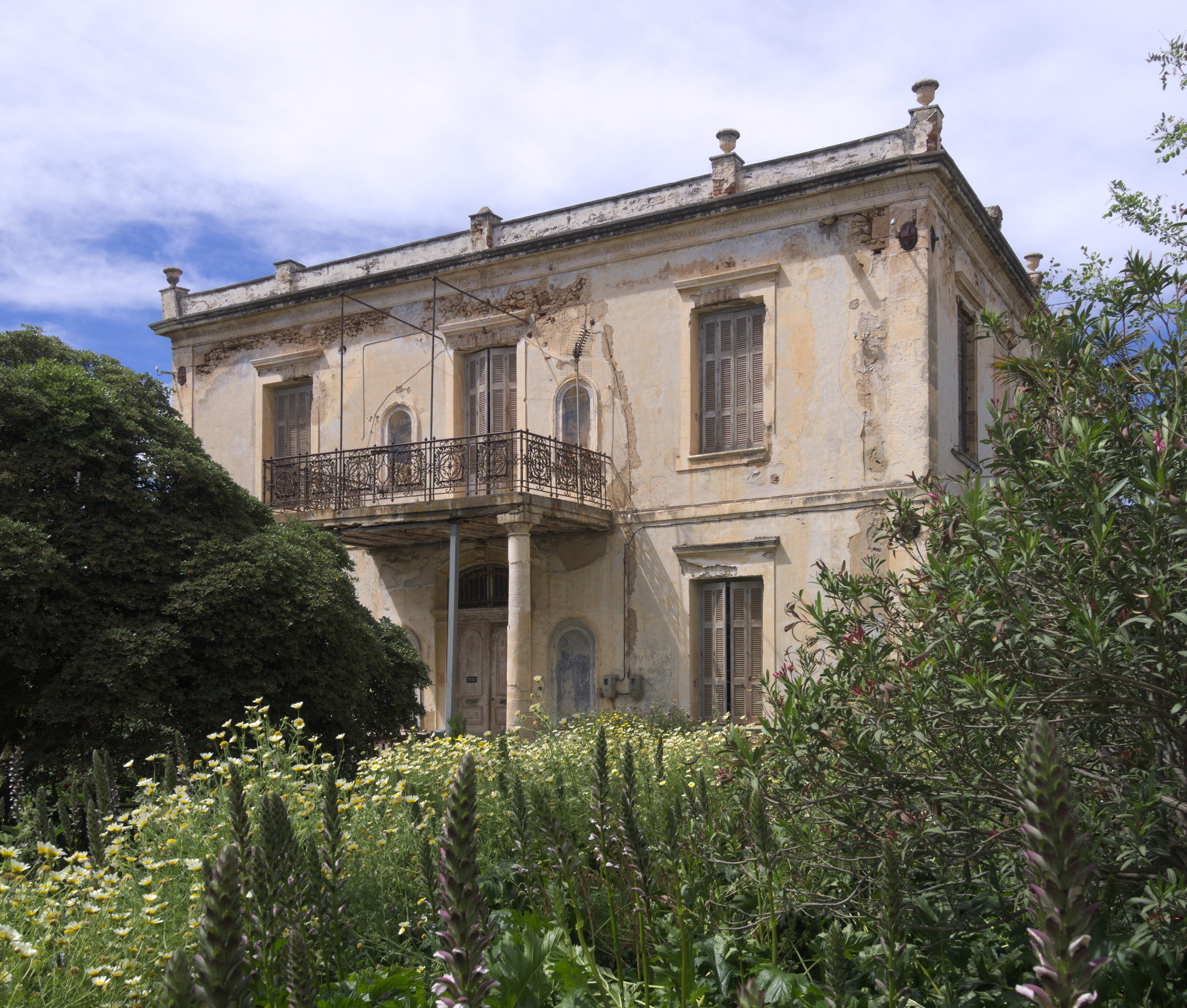 The so called "Palace" of Chania, located at Chalepa. The mansion, built around 1882, was the residence of the High Commissioner of Crete, Prince George of Greece and Denmark (1898-1906).